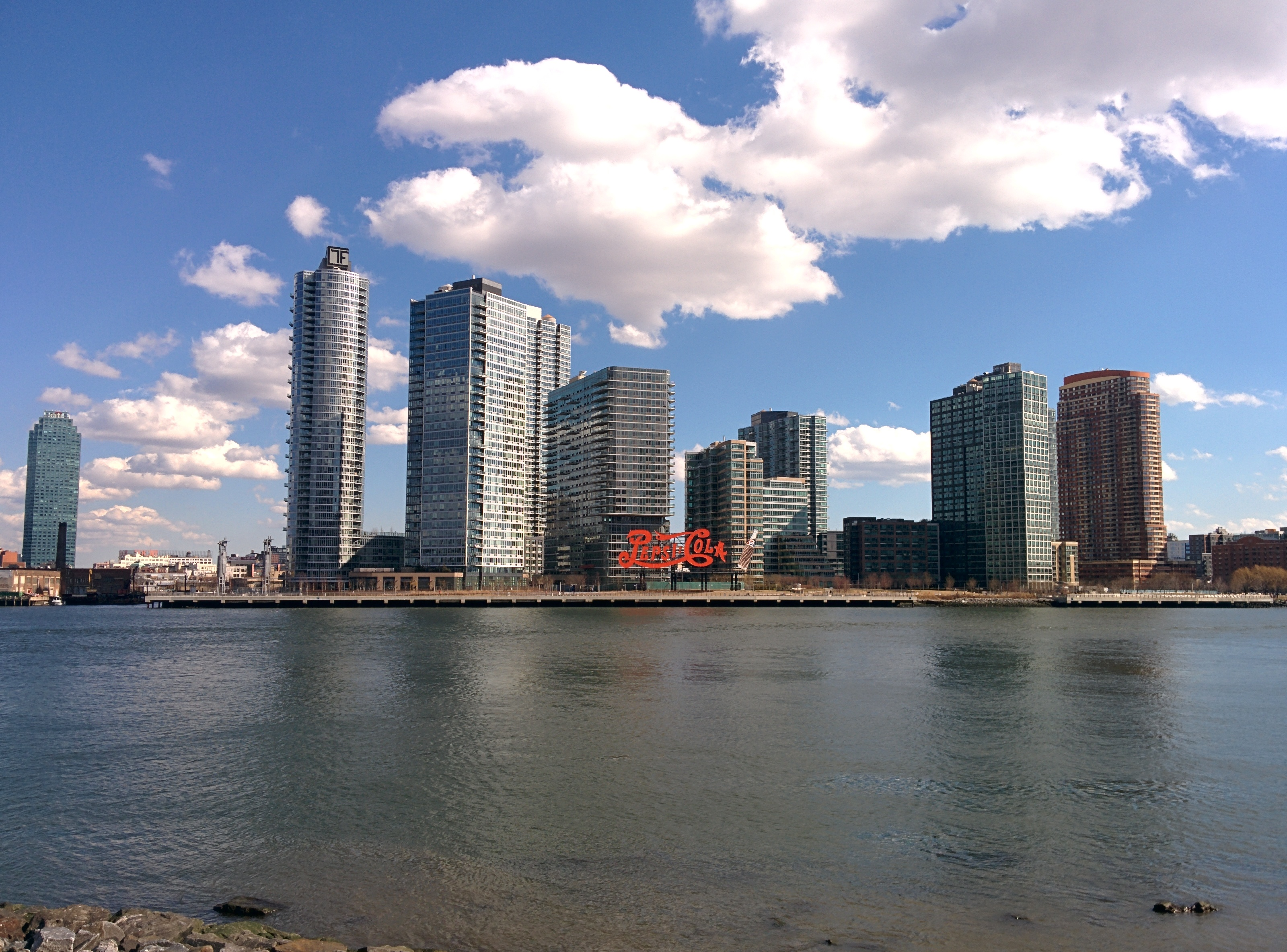 Pepsi-Cola sign in Gantry Plaza State Park, Long Island City, New York, as seen from Roosevelt Island.